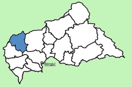 Map showing location of Ouham-Pendé_Prefecture in Central African Republic